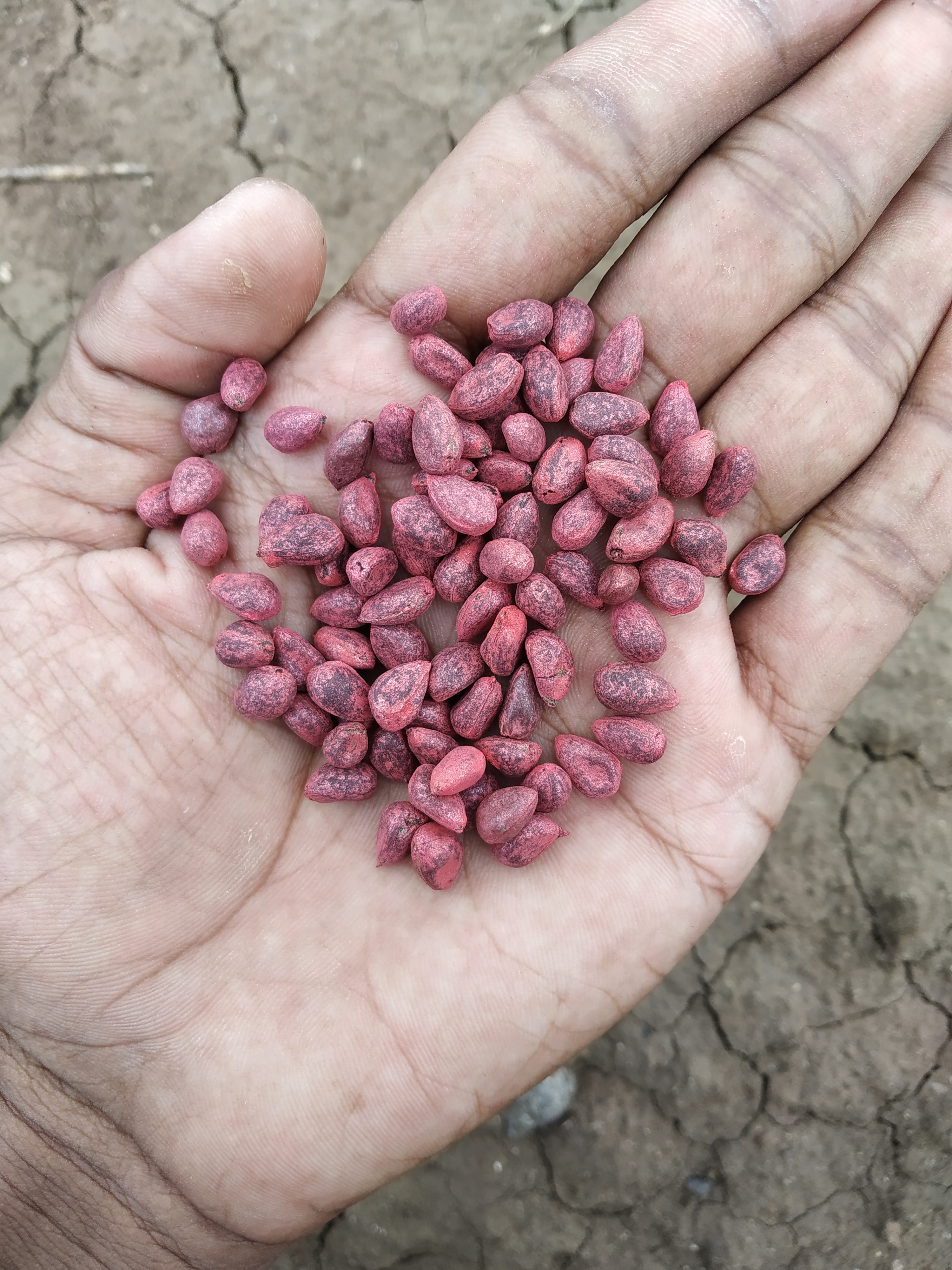 This is hybrid cotton seeds with bollgard II developed for cotton plantation in South and south west region of India